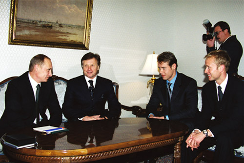 THE RUSSIAN EMBASSY, WASHINGTON, DC. President Vladimir Putin meeting with leading Russian ice hockey players. From left to right with the President, National Olympic Committee President Leonid Tyagachev, and Pavel and Valeri Bure.